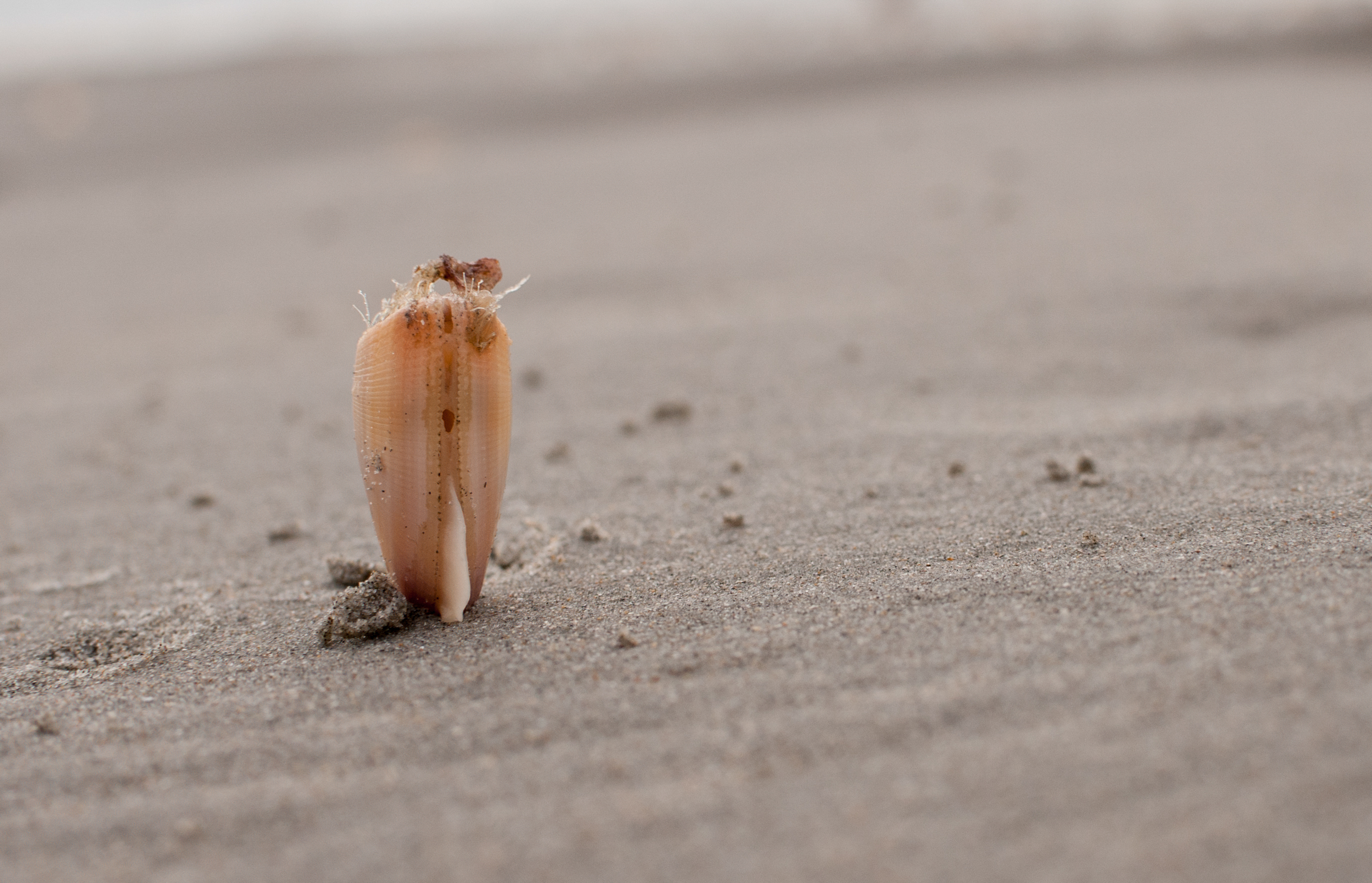 Donax striatus Linnaeus, 1767, La Guardia